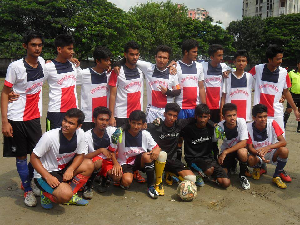 Central FC 2016 team